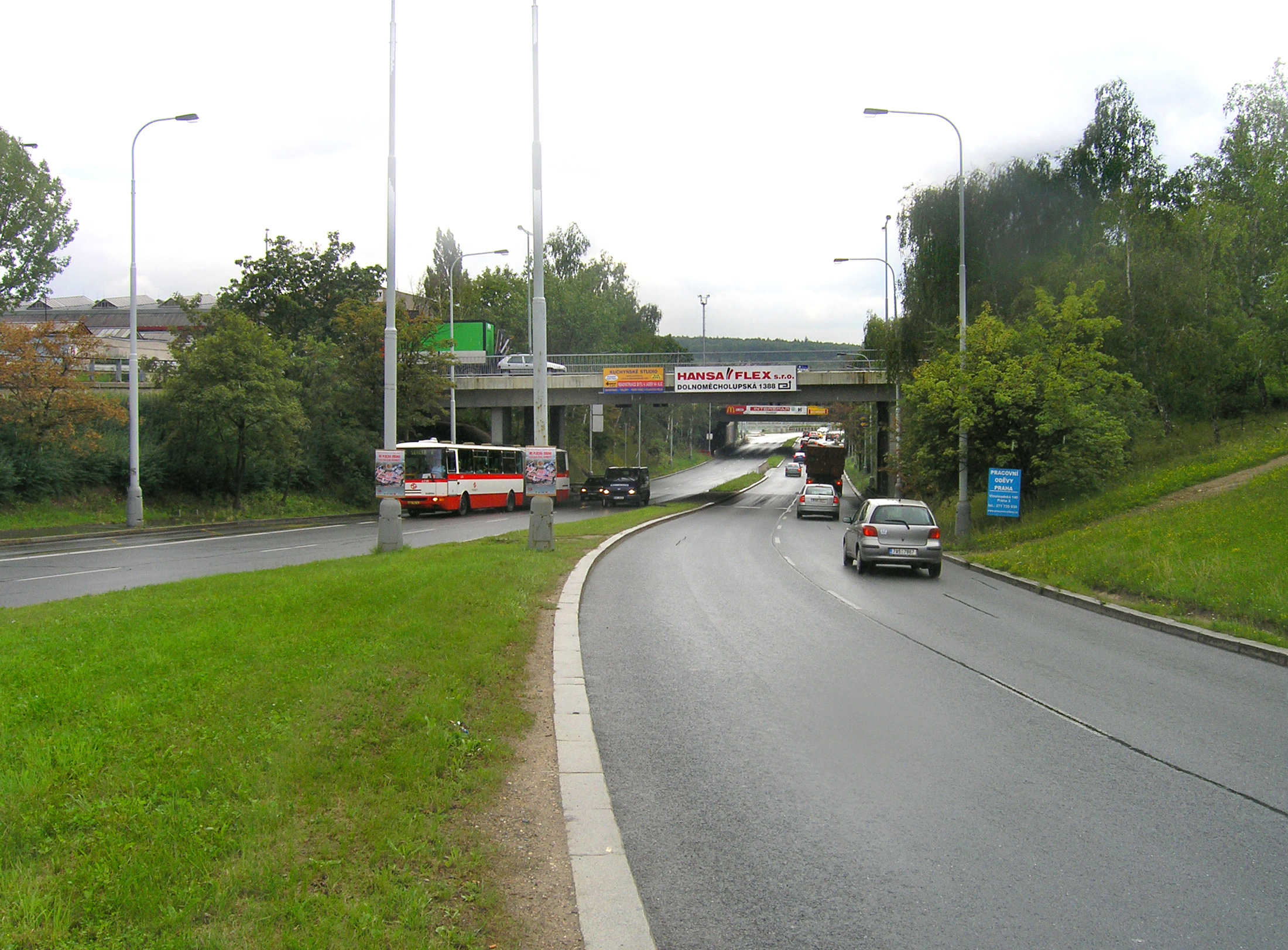 Local road "Průmyslový polookruh" (Industrial semicircle) at Hostivař, Prague